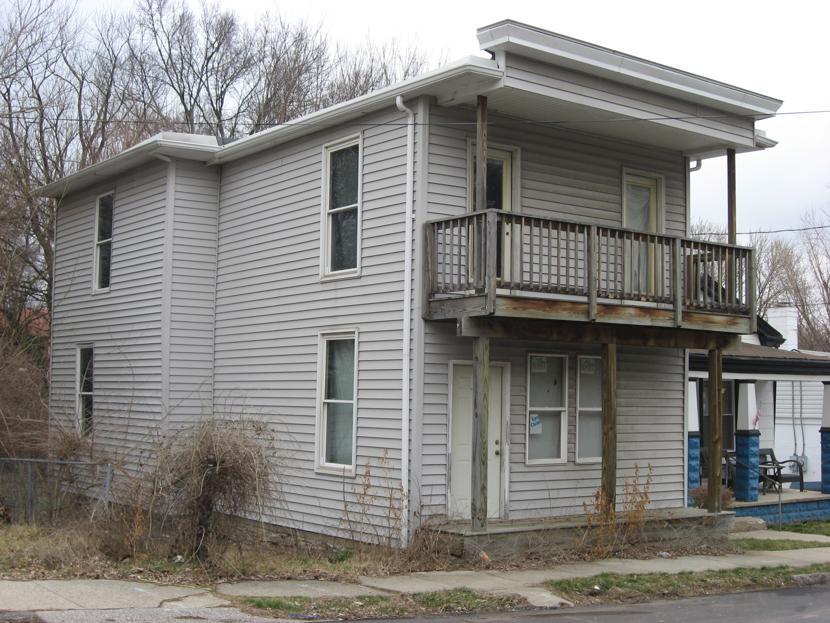 Front and western side of the Old College Hill Post Office, located at 1624 Pasadena Avenue in the College Hill neighborhood of Cincinnati, Ohio, United States. Built in 1840 and since converted into a house, it is listed on the National Register of Historic Places.